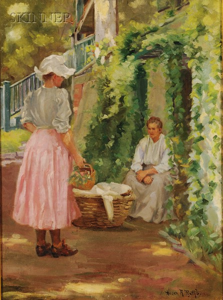 Helen Ghbun (American, 19th/20th Century) In the Garden